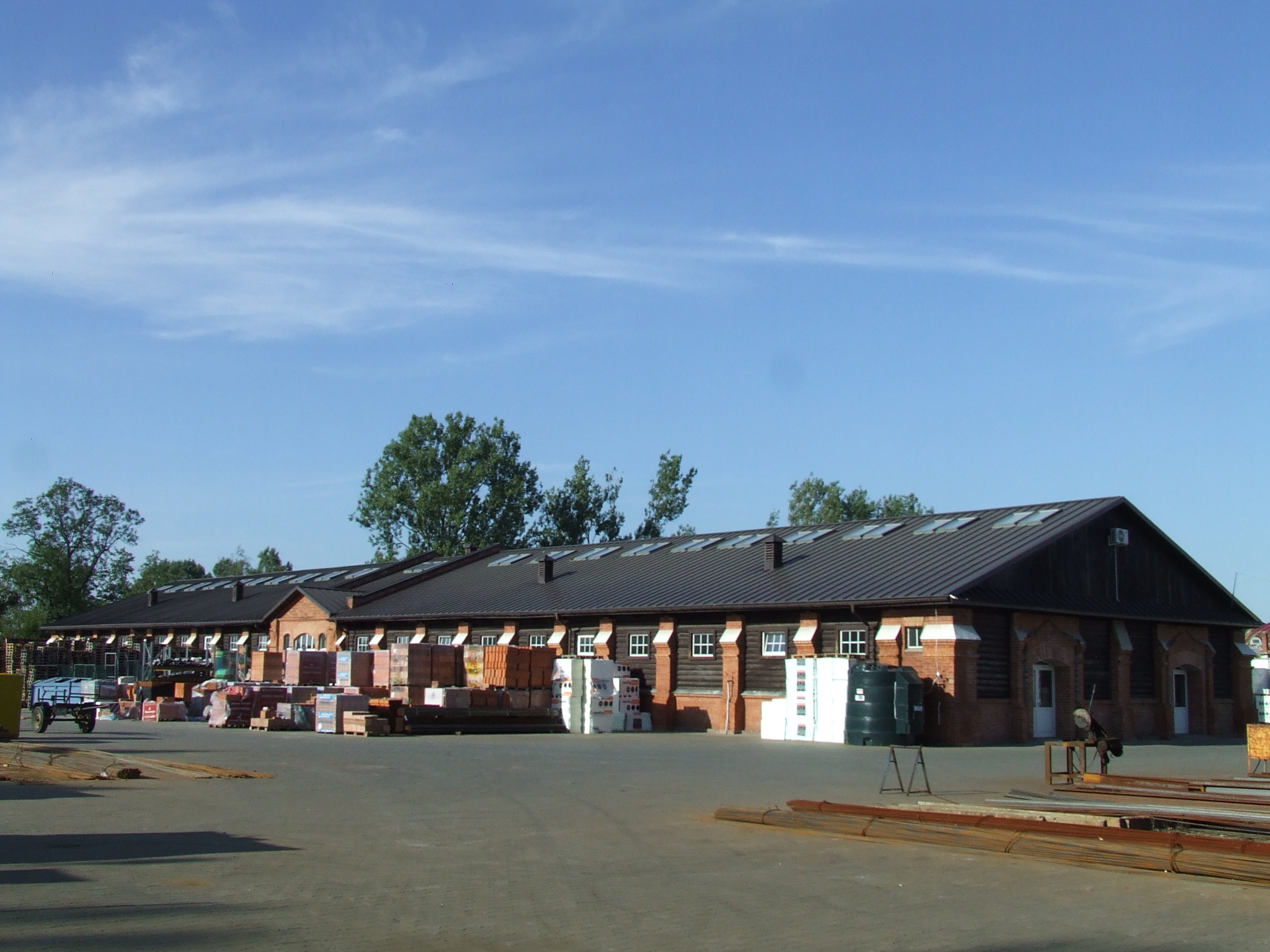 Garwolin, Aleja Legionów street - old calvary stables from 1905 (historical monuments record A-449 of 16.04.1996)